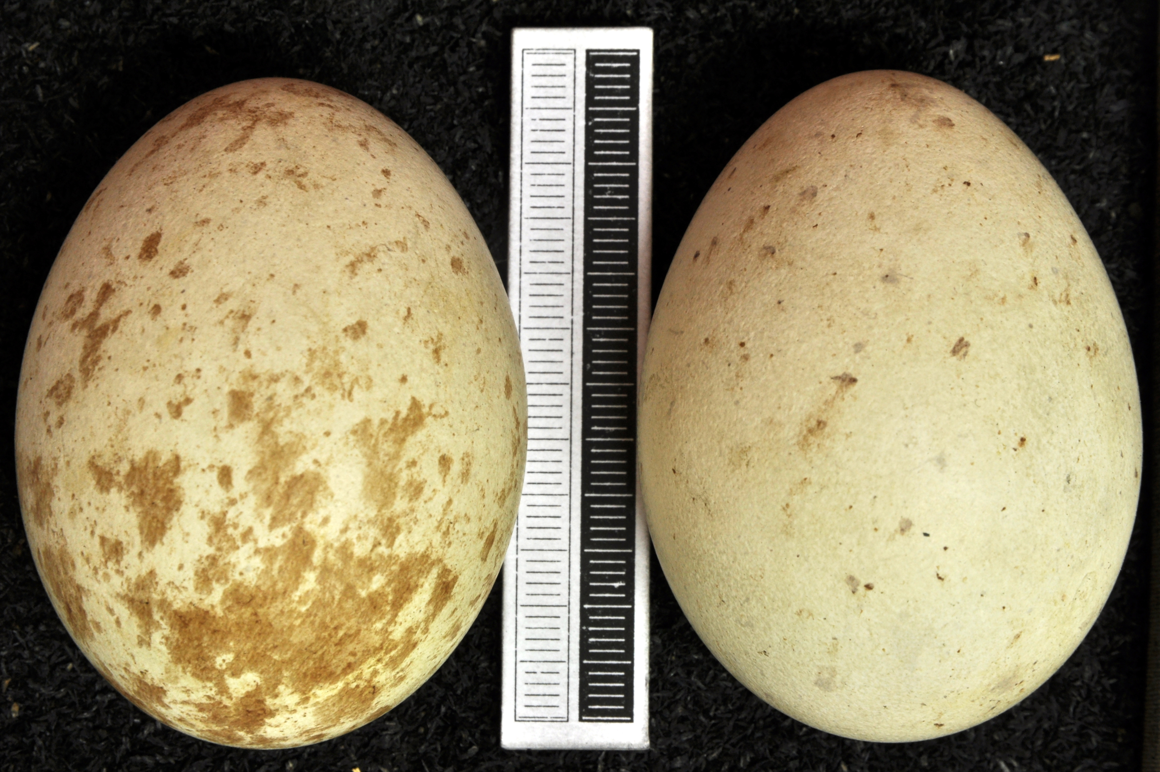 Red kite Milvus milvus , egg, Coll. Museum Wiesbaden